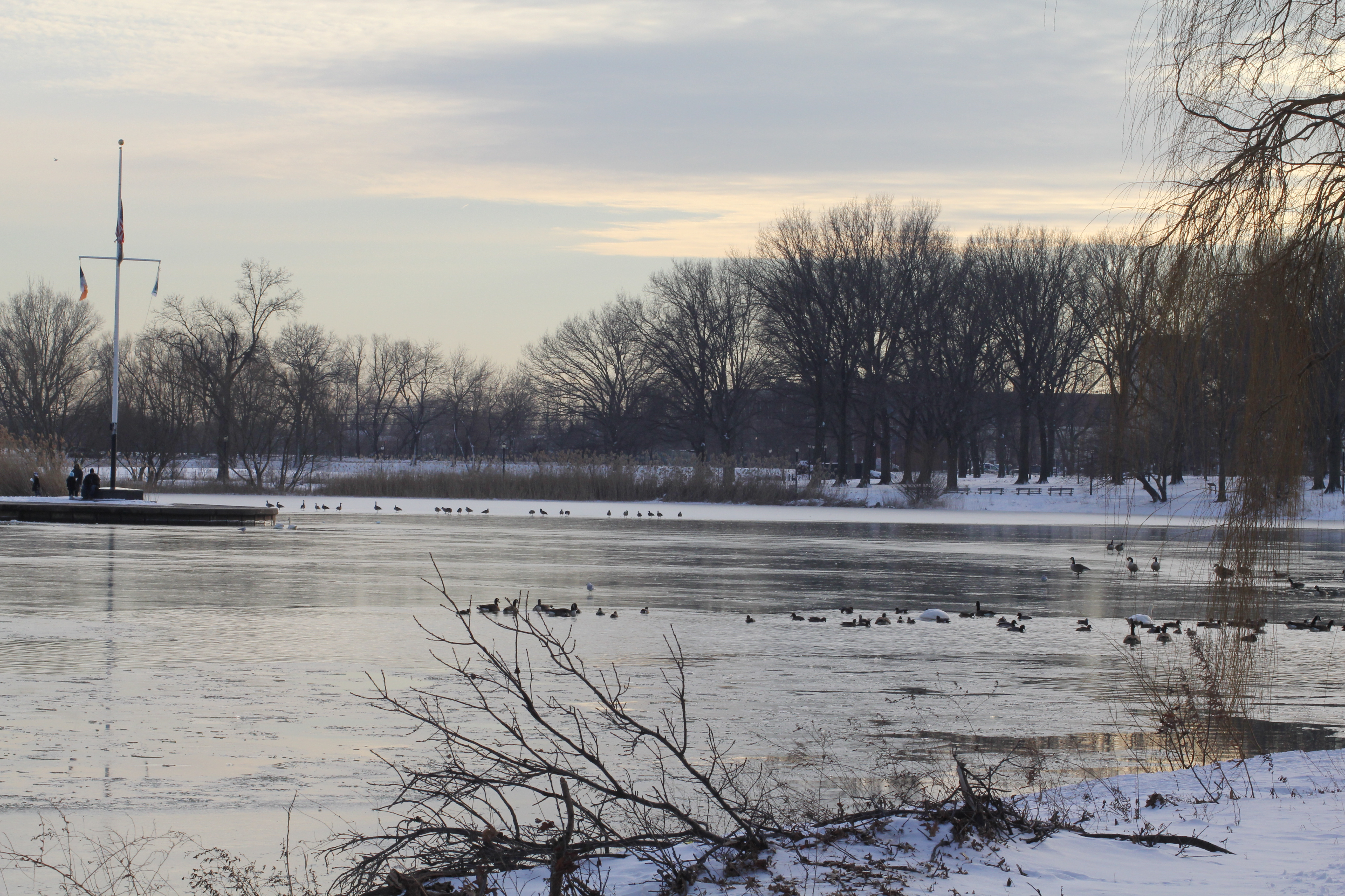 View across Baisley Pond in South Jamaica, Borough of Queens, New York City . The south end of the pond is in the center of the picture, and one of the two flagpoles in the southeastern corner is visible to the left.